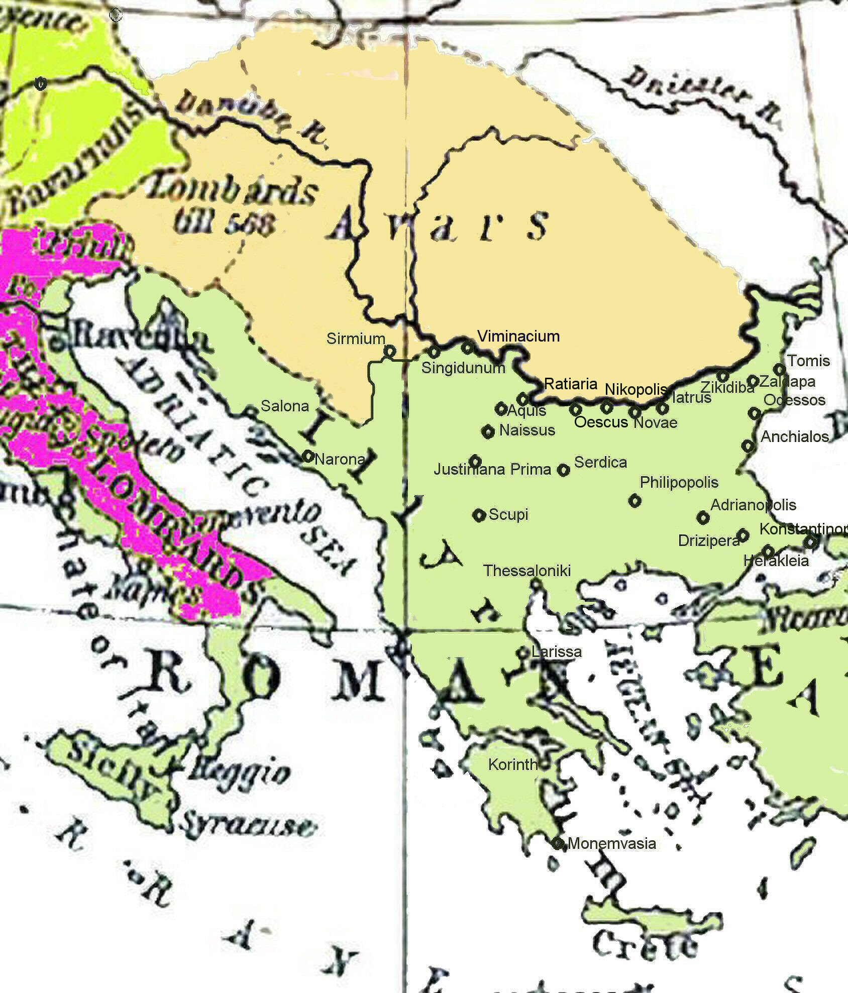 Historical map of the Balkans around 582-612 AD showing the Avar Khaganate, Byzantine (Eastern Roman) Empire.